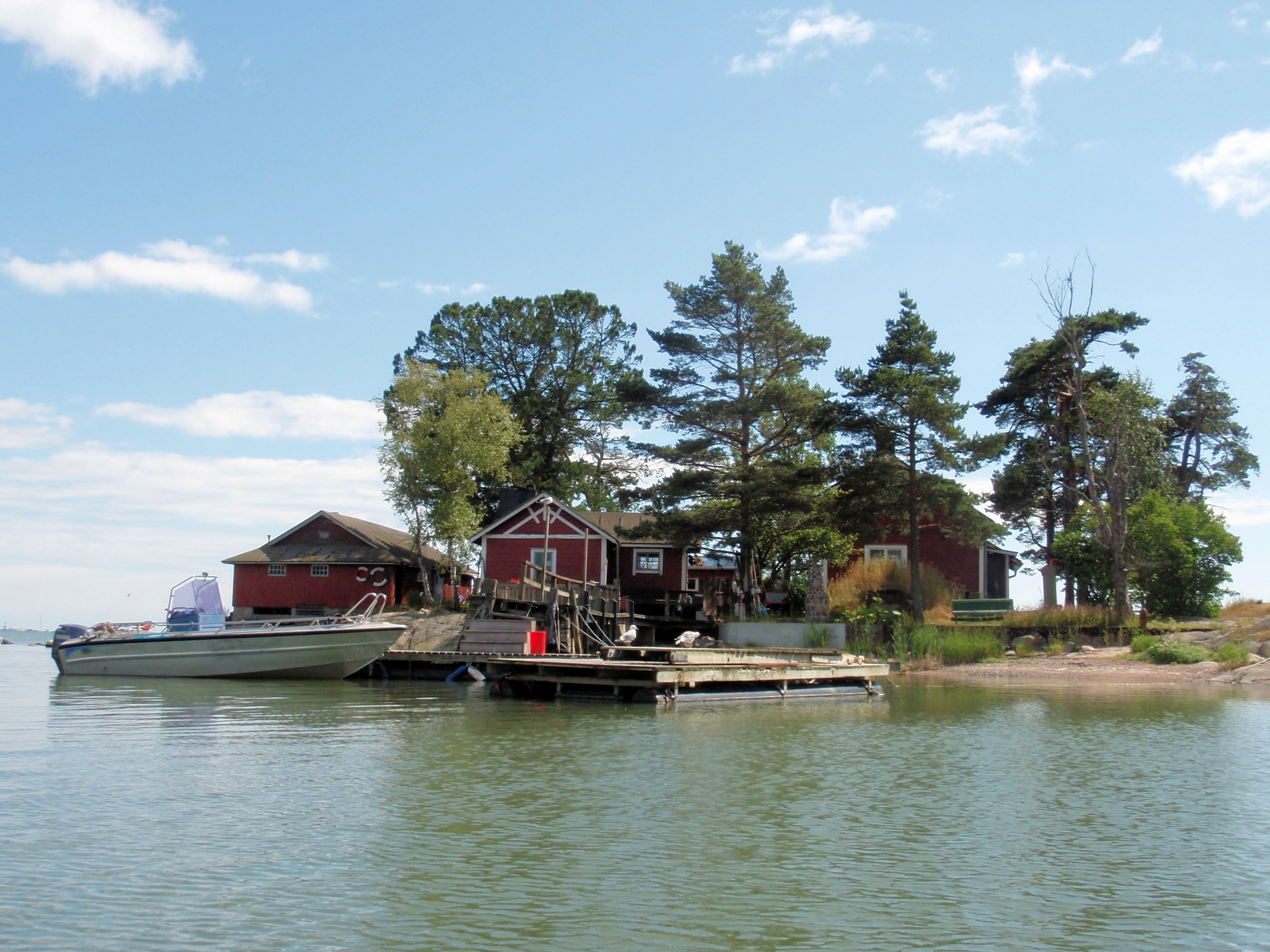 Vadelmakupu, a small islet outside Helsinki